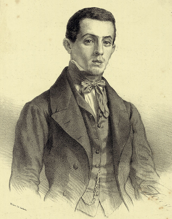 Portrait of Disma Fumagalli, composer (1826-1893), before 1862.